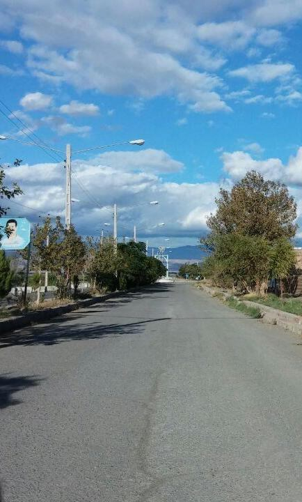 مزینان